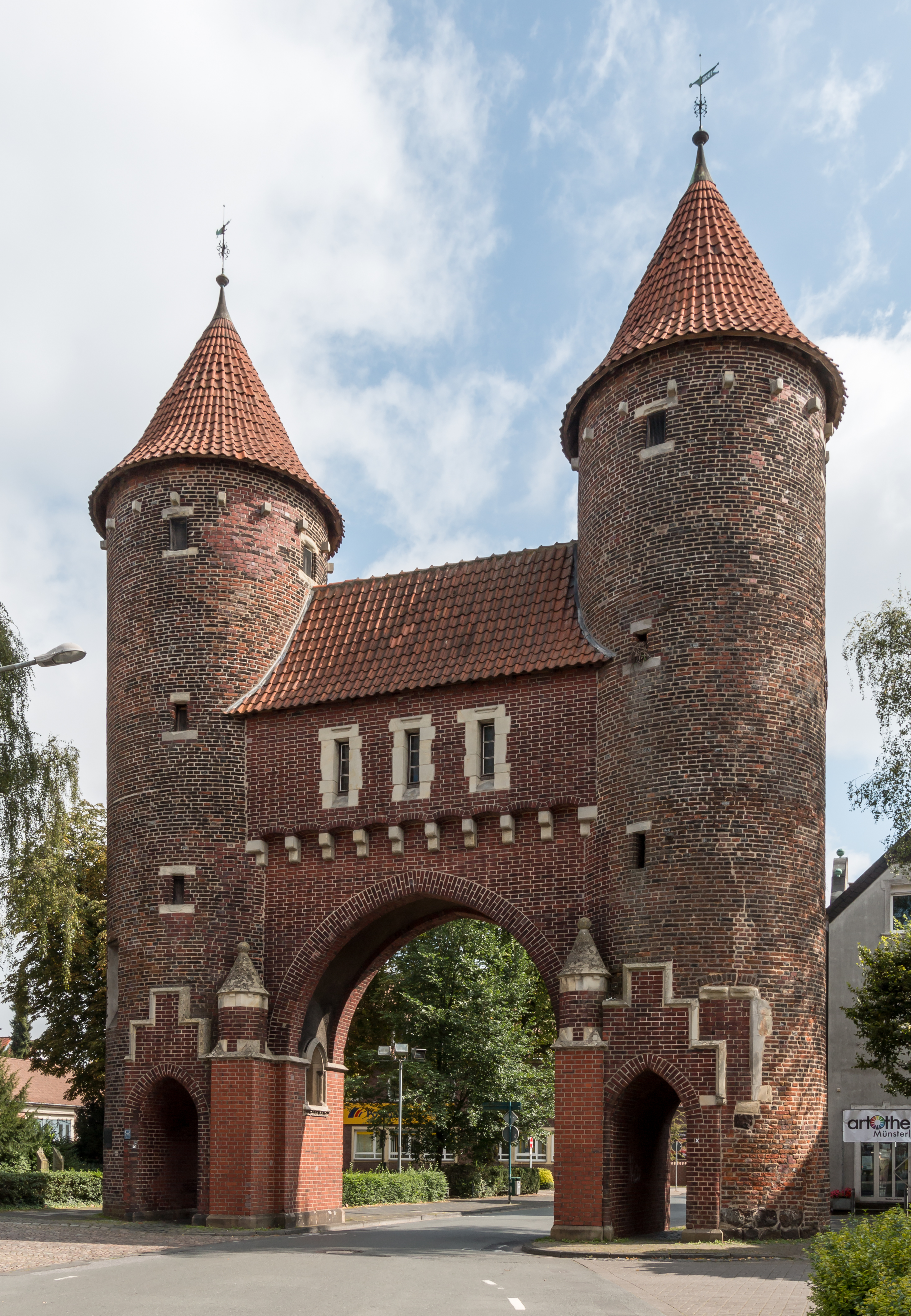 Lüdinghausen Gate, Dülmen, North Rhine-Westphalia, Germany This image shows a heritage building in Germany, located in the North Rhine-Westphalian city Dülmen (no. 1).